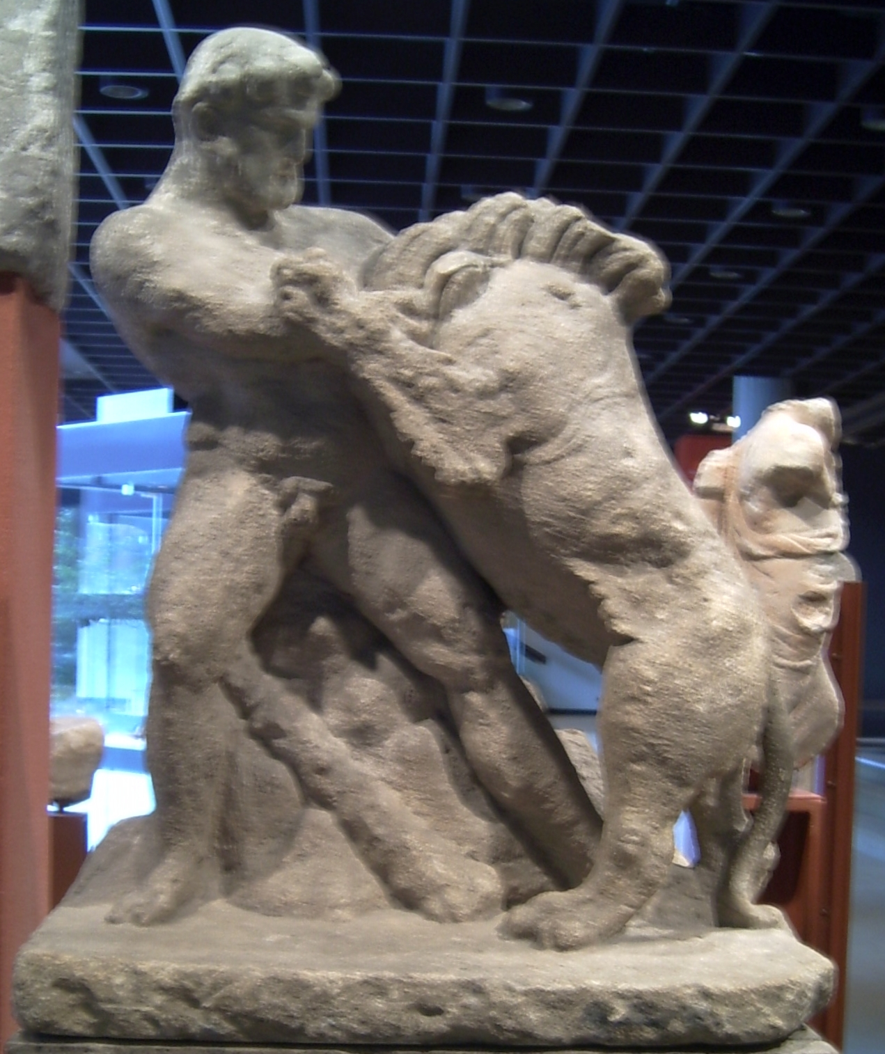 Heracles and the Erymanthian Boar For other images, see gallery Römisch-Germanisches Museum.